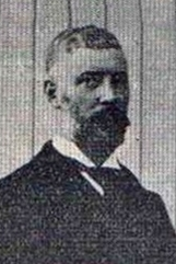 William Lewis, Secretary of Brentford FC, in 1902/03